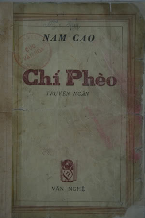 Cover of Chi Pheo by Nam Cao, Van nghe Publication, 1957